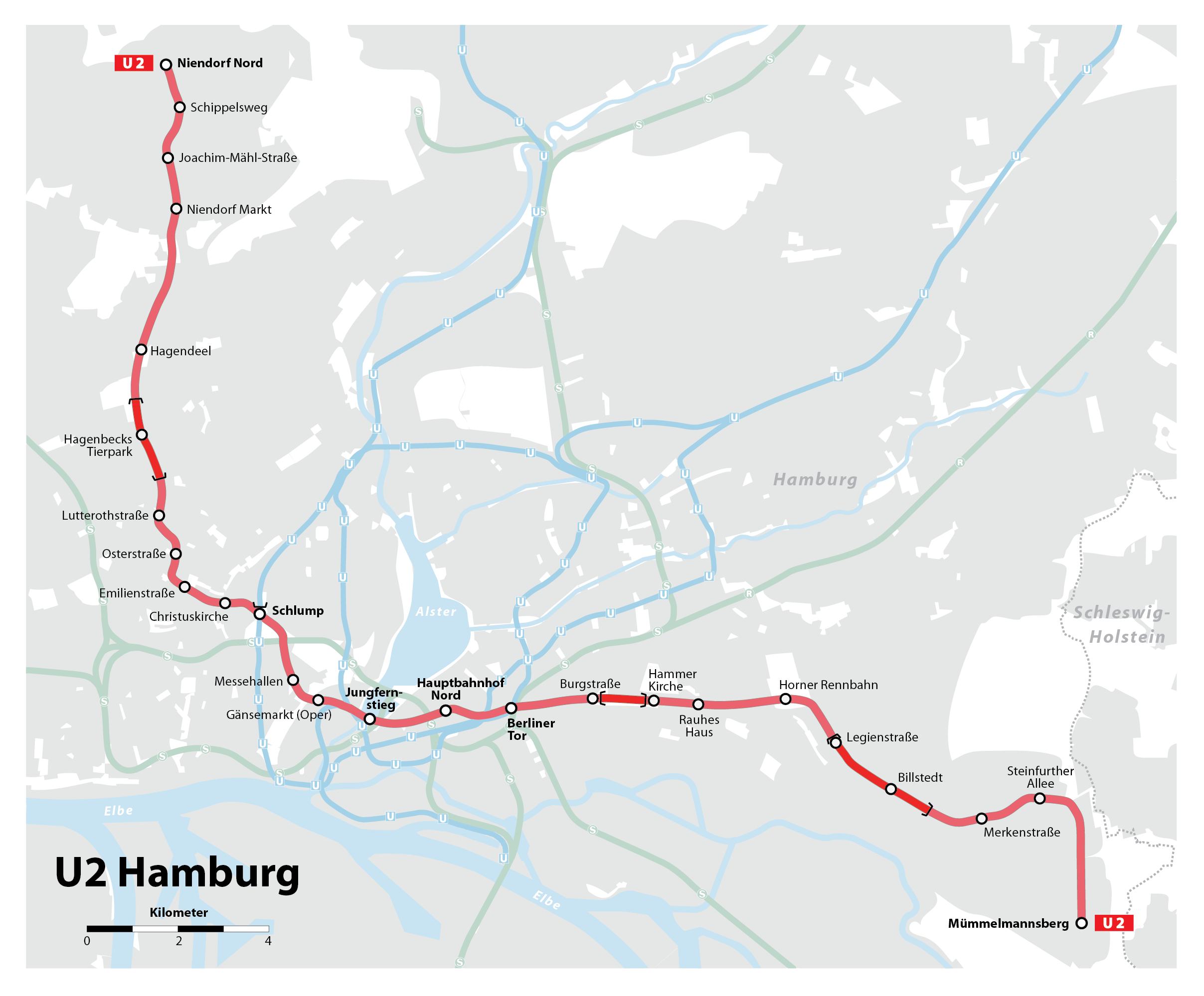 Map of Hochbahn Hamburg route U2